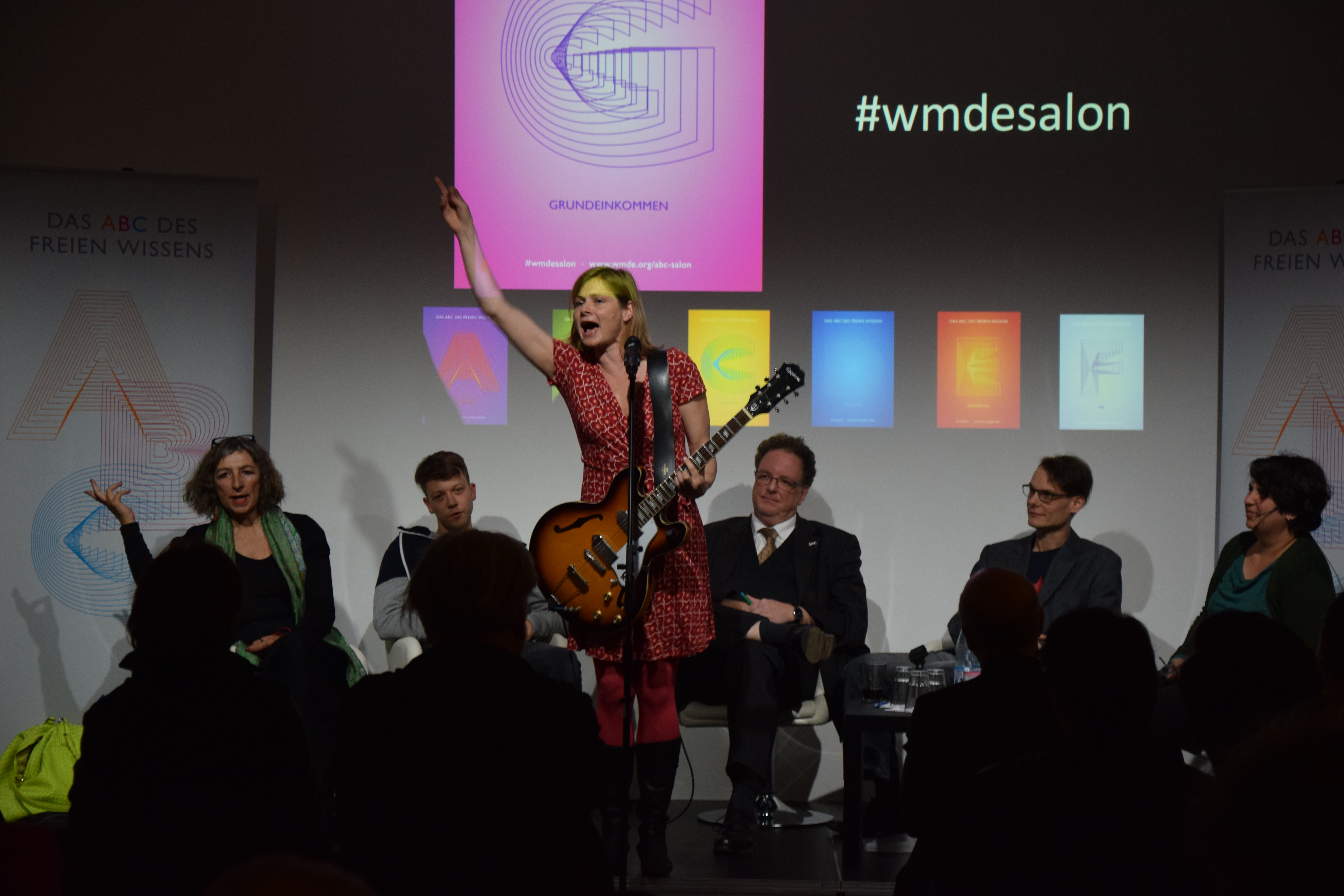 7. ABC des Freien Wissens "G=Grundeinkommen"